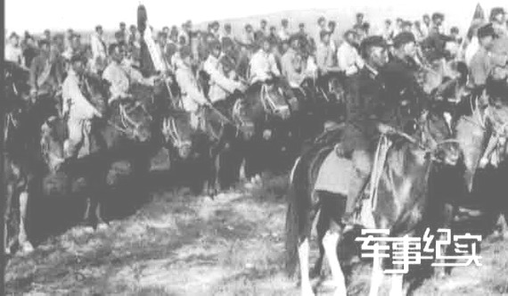 Red Army on horseback. 中国工农红军.